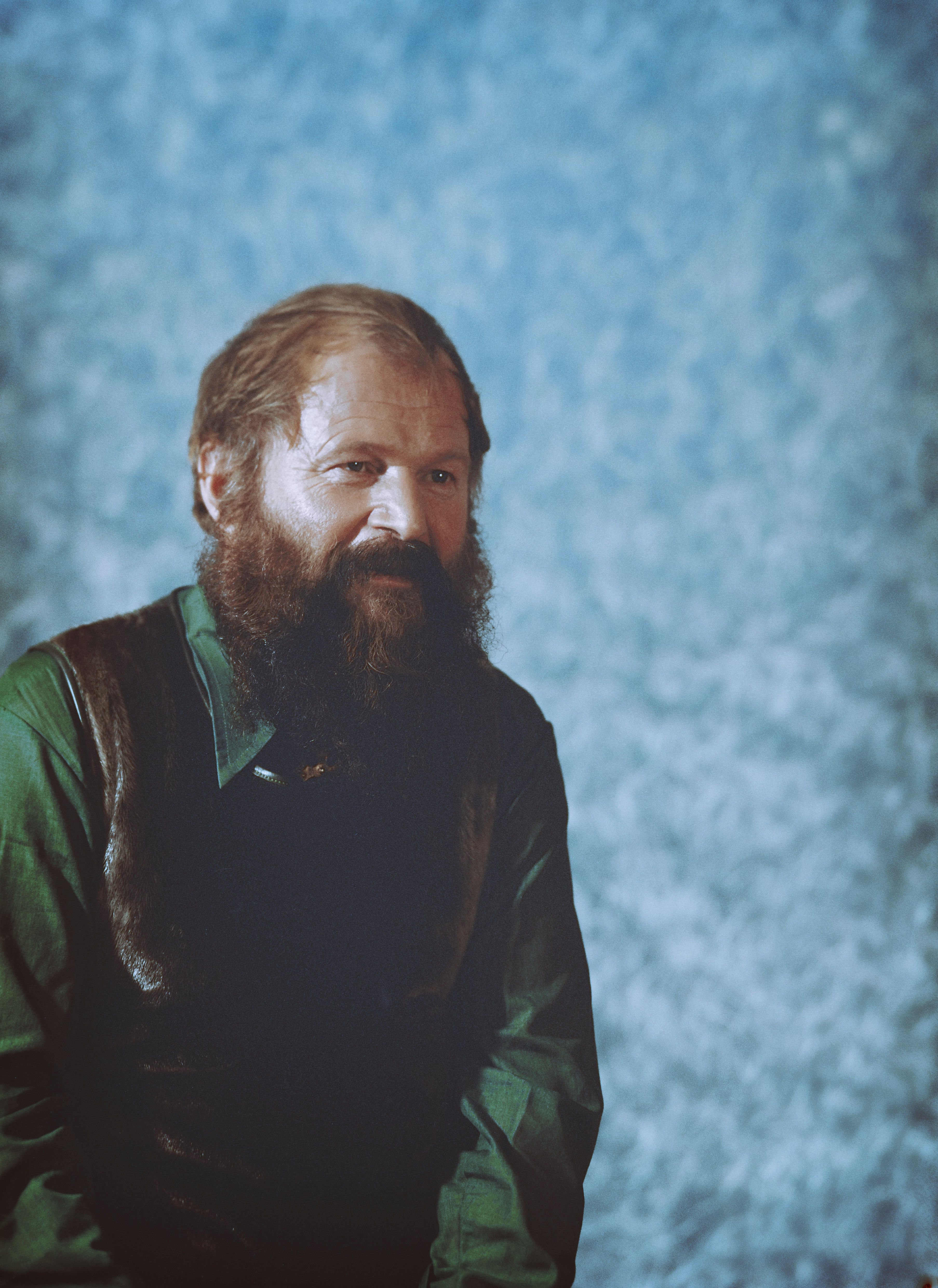 Photograph of the Finnish painter Reidar Särestöniemi (1925–1981).